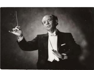 Image supplied to the author of the article by the subject's widow, Elissa Minet Fuchs, with written permission to use.